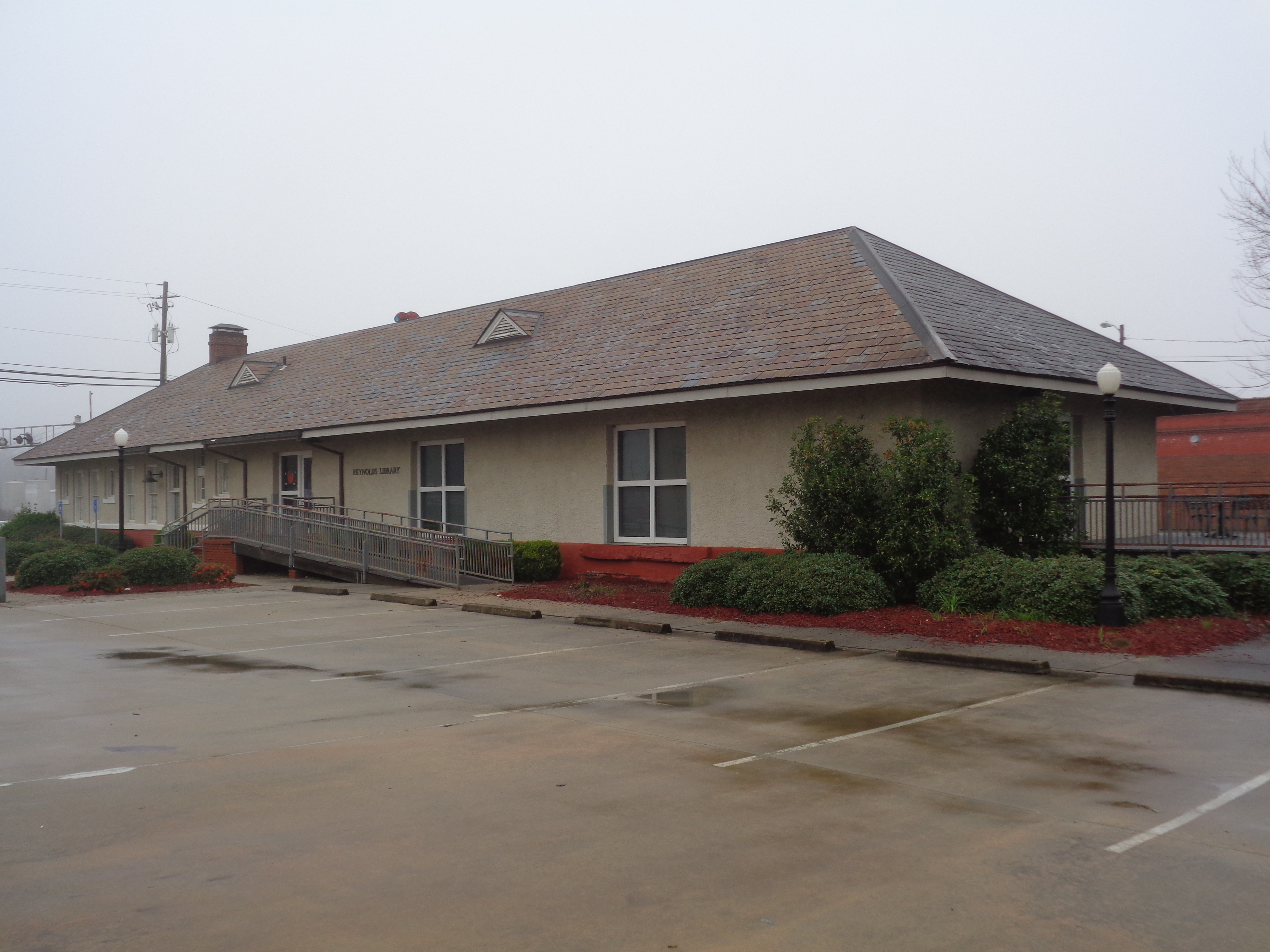 Reynolds Depot, Southeast corner, Reynolds, Taylor County, Georgia